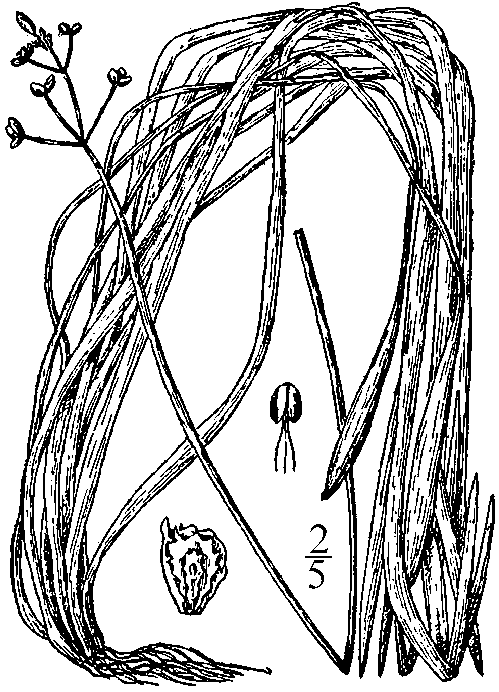 Sagittaria subulata (L.) Buchenau (awl-leaf arrowhead)